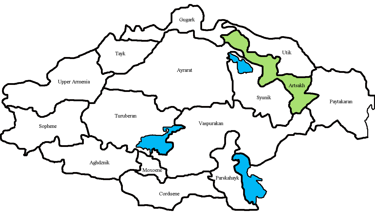 Location of Artsakh within the Kingdom of Armenia